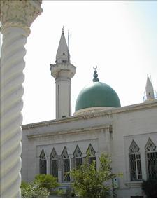 Mosque of imam Abdul Rahman Al Ouza'i in southern Beirut